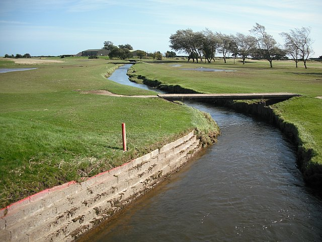 Barry Burn The Barry Burn crossing the golf courses on Carnoustie Links. A few days previously it had flooded a lot of the surrounding land, and there was still some surface water and debris on some of the fairways.